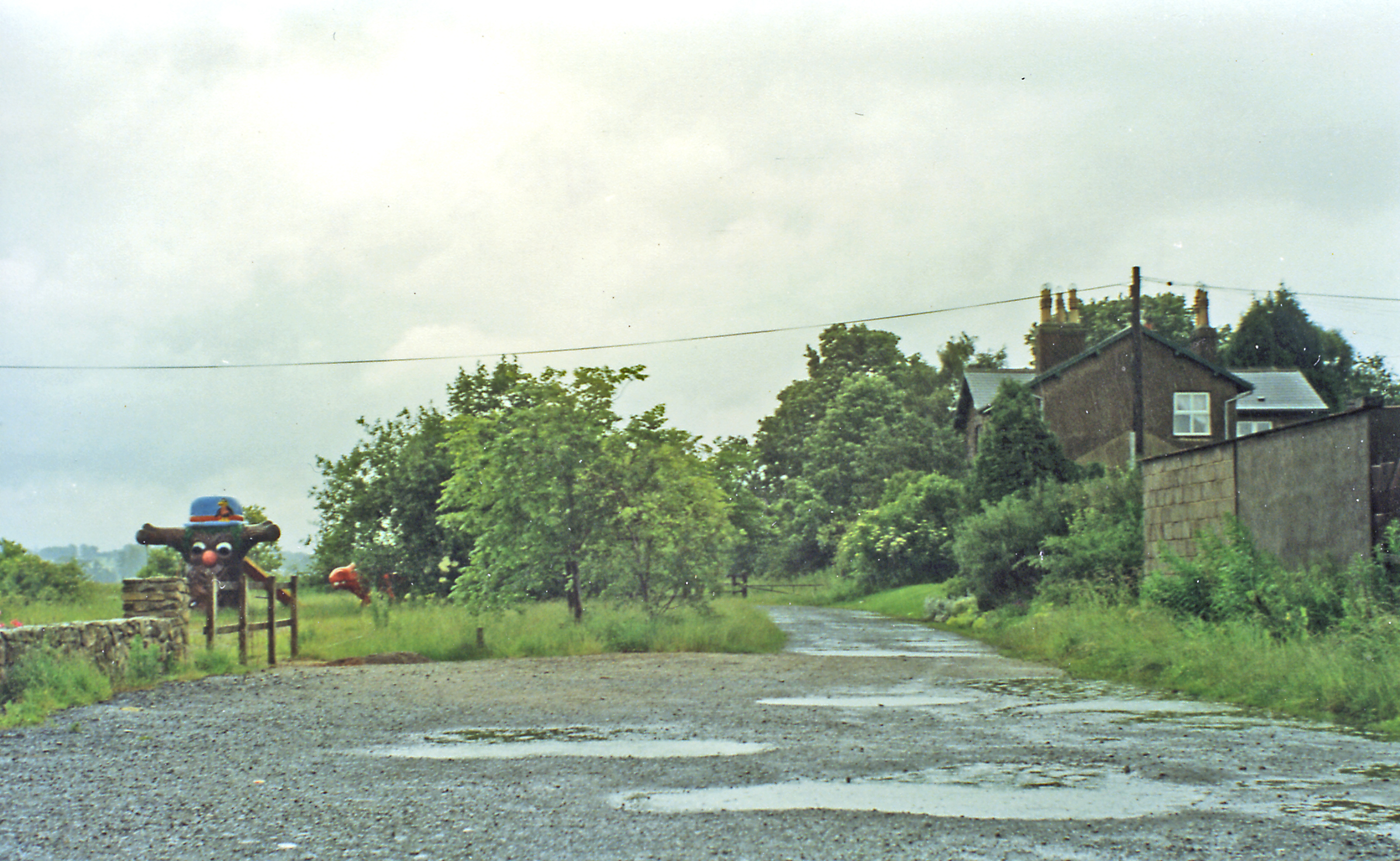 Site of former Hunwick station, 1997. View SW, towards Bishop Auckland: ex-NER Durham - Bishop Auckland line, closed to passengers 4/5/64, to goods 5/8/68. (What on earth is the 'Thing' on the left?)